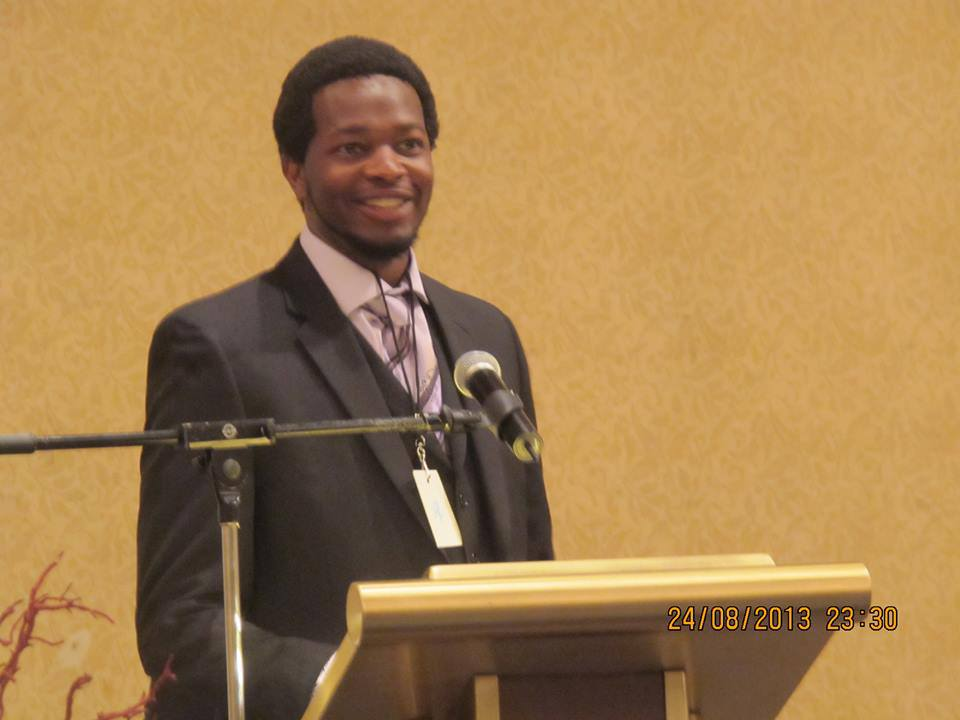 Antonio James accepting AOF festival award for Trey the Movie